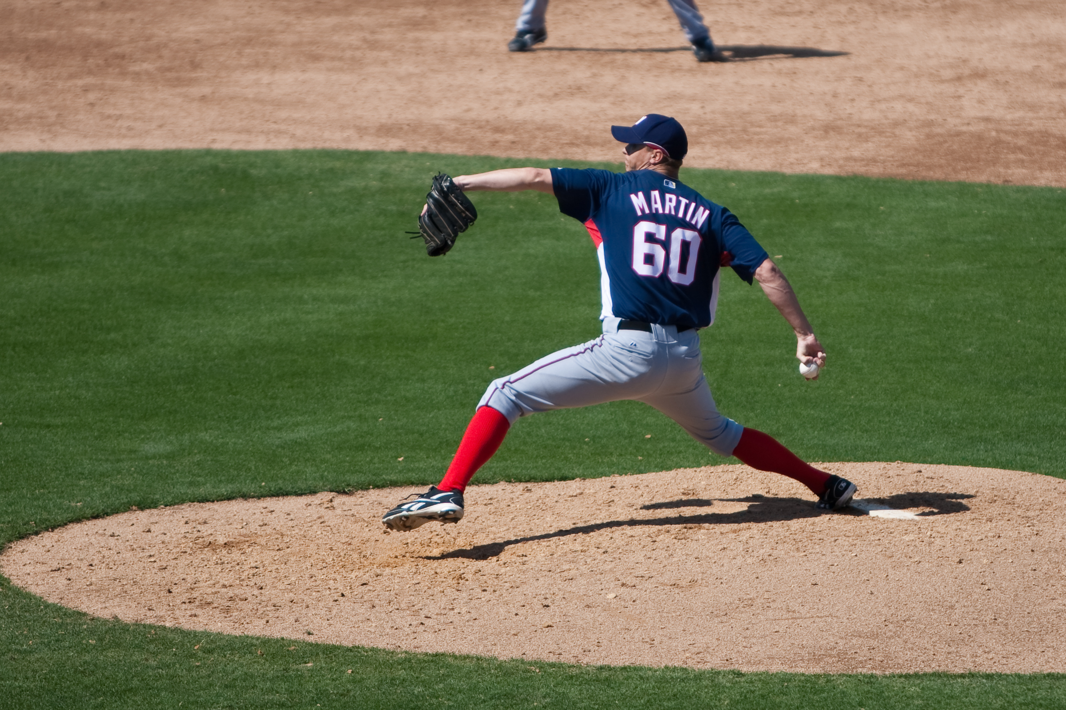 J. D. Martin takes over on the mound and is called on a balk in his next inning of work, moving the runner to second. A wild pitch then moves him to third.